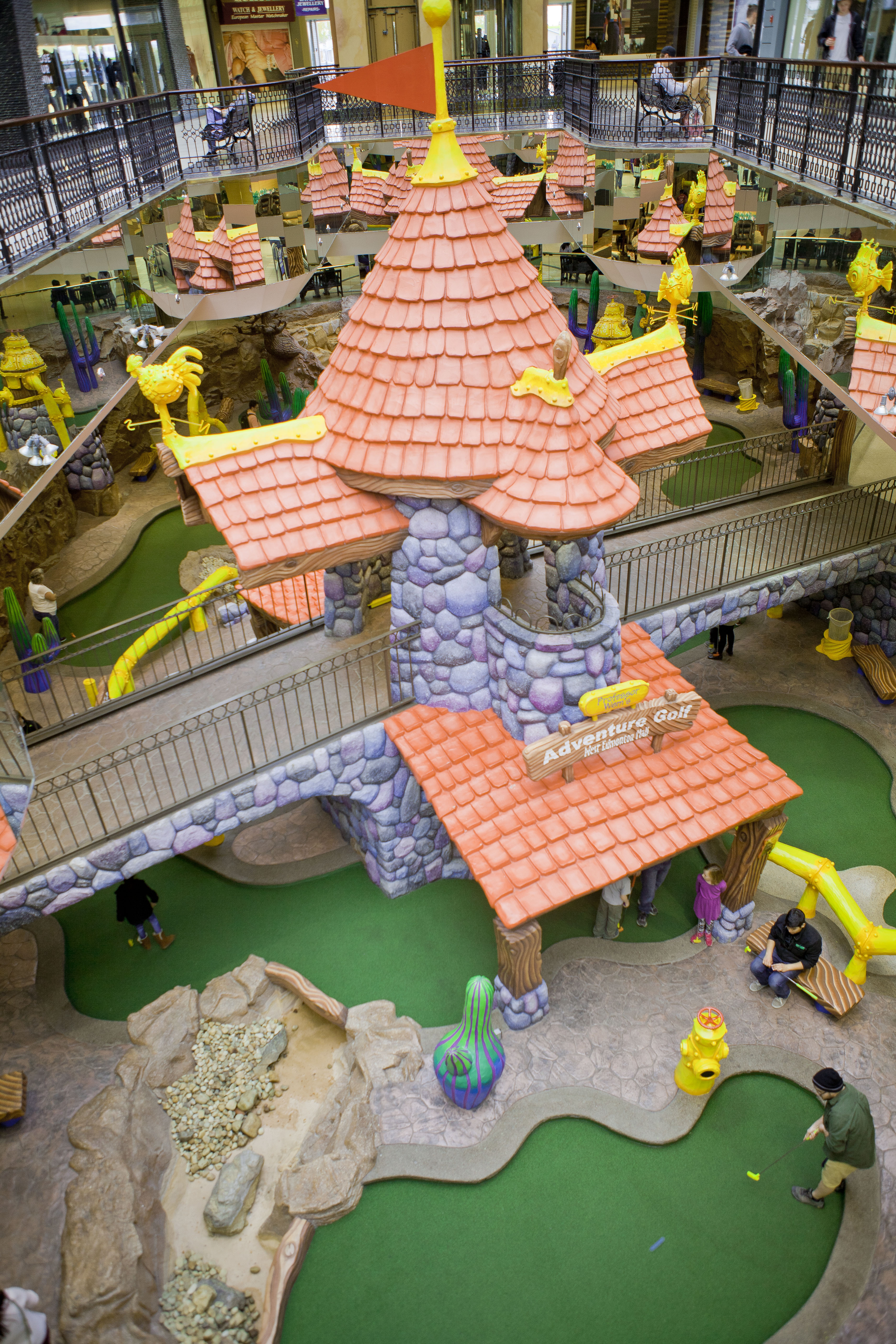 West Edmonton Mall, Edmonton, Alberta